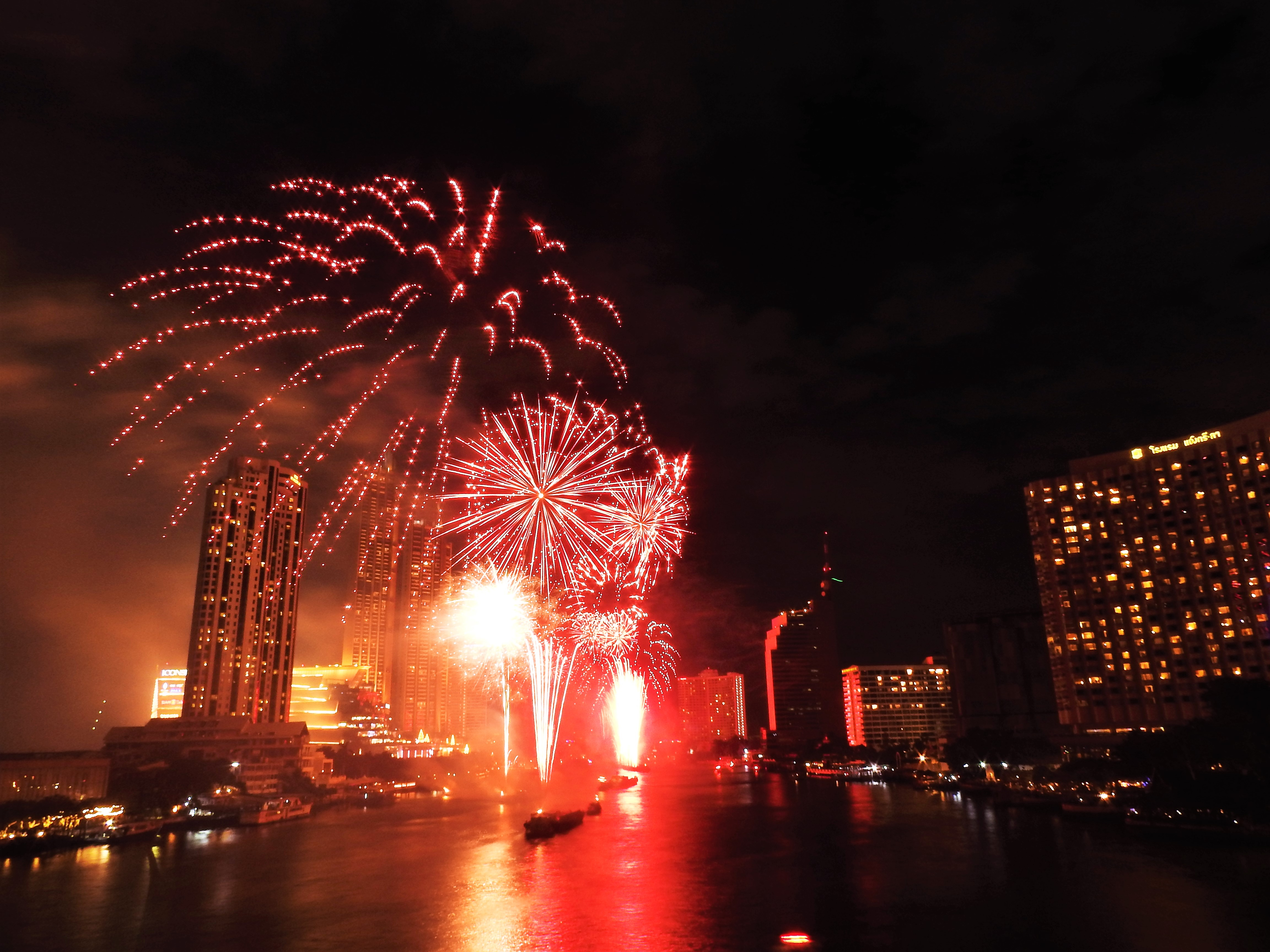 Fireworks on new year's eve 2019 to welcome the new year 2020